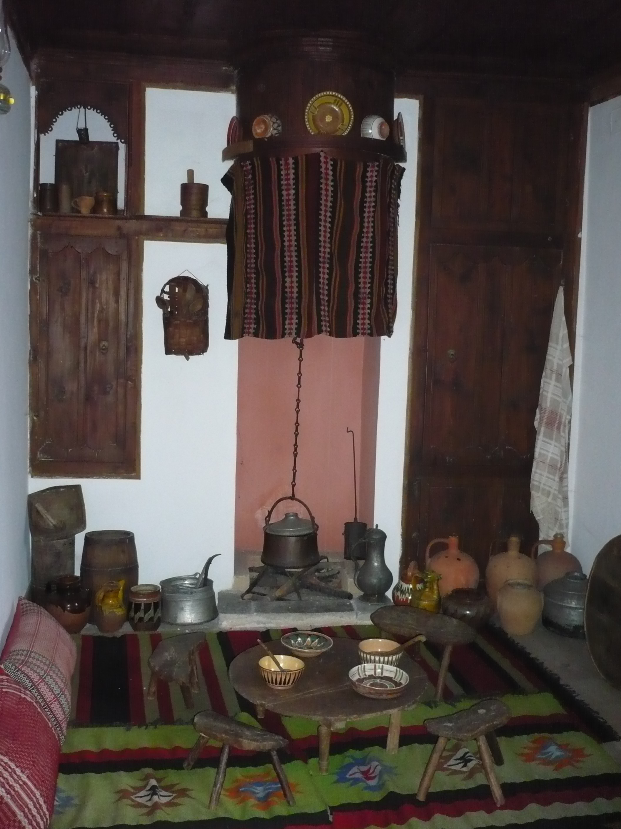 House-museum of Ivan Vazov interior